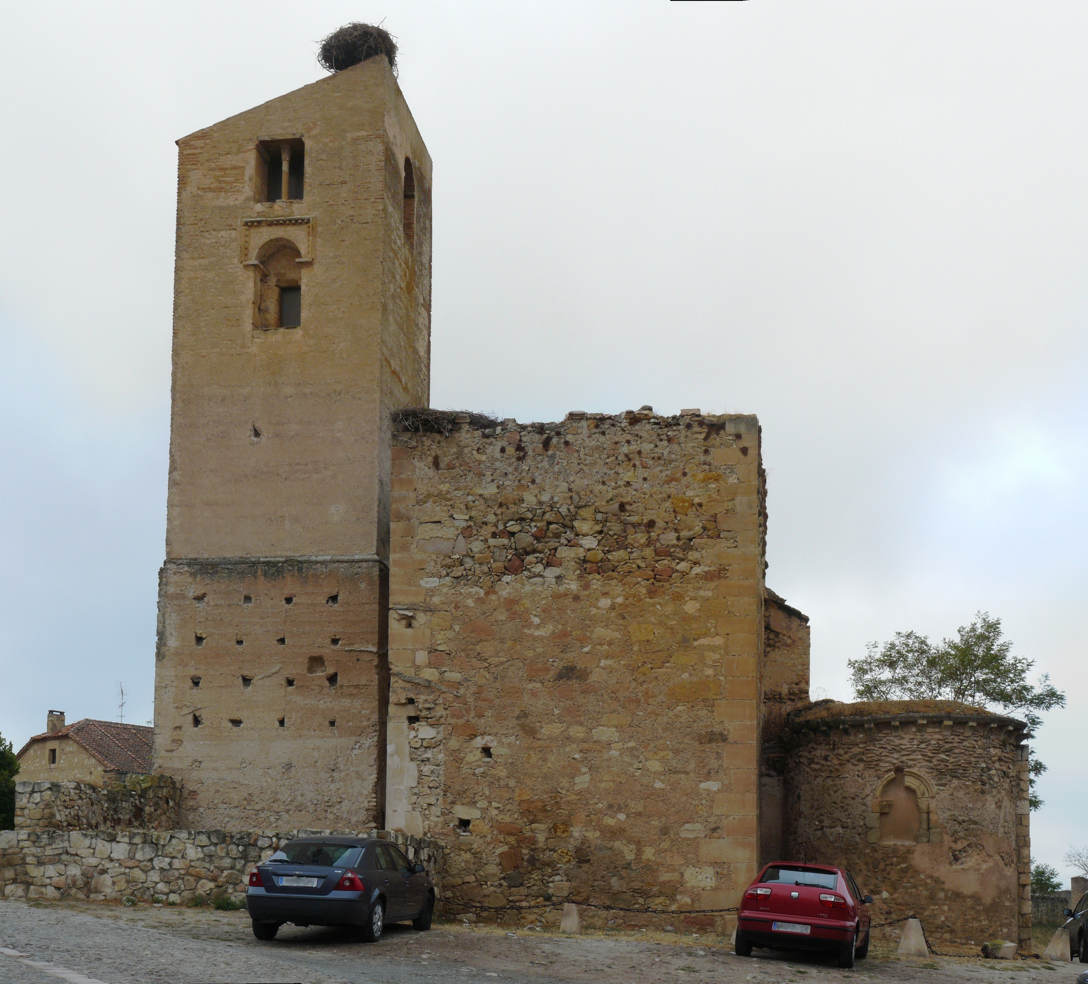 Church of Santa María, Pedraza, Segovia (Spain)